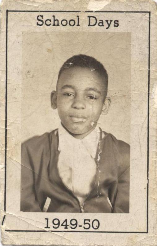 Personal Scrapbook Photo